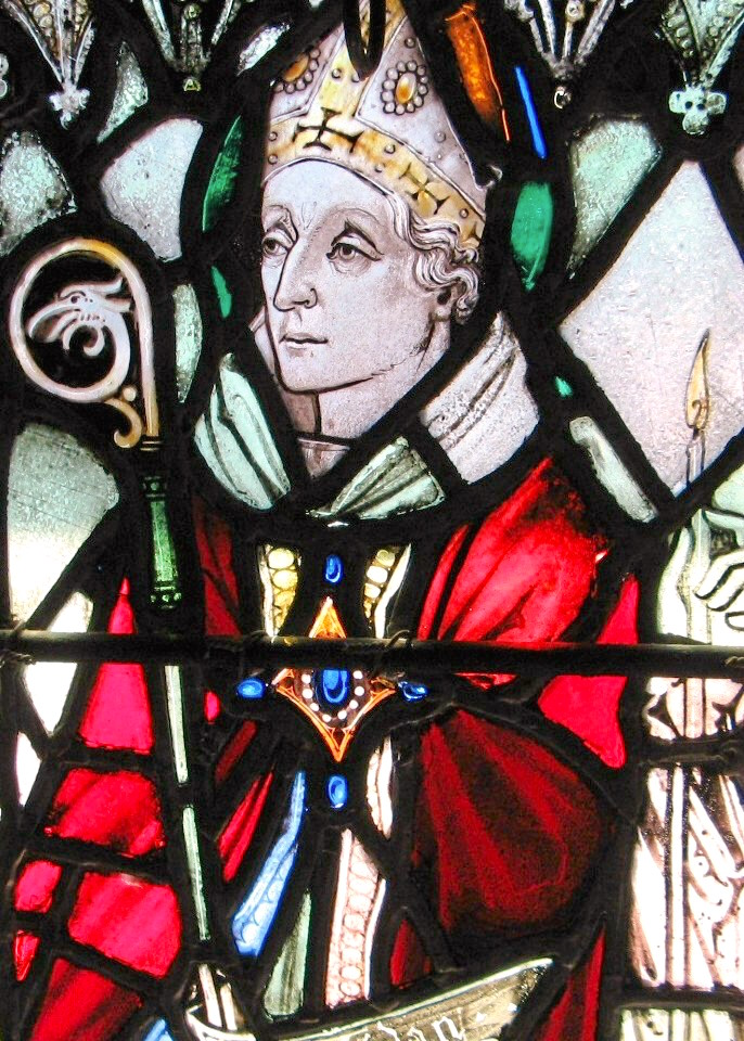 Monastic Chapel 1920, Holy Cross Monastery, West Park, New York. This is the Christian saint Aidan in stained glass form. He was born in Ireland and helped spread Christianity in Great Britain, especially in Northumbria. He is a possible candidate for patron saint of Great Britain.